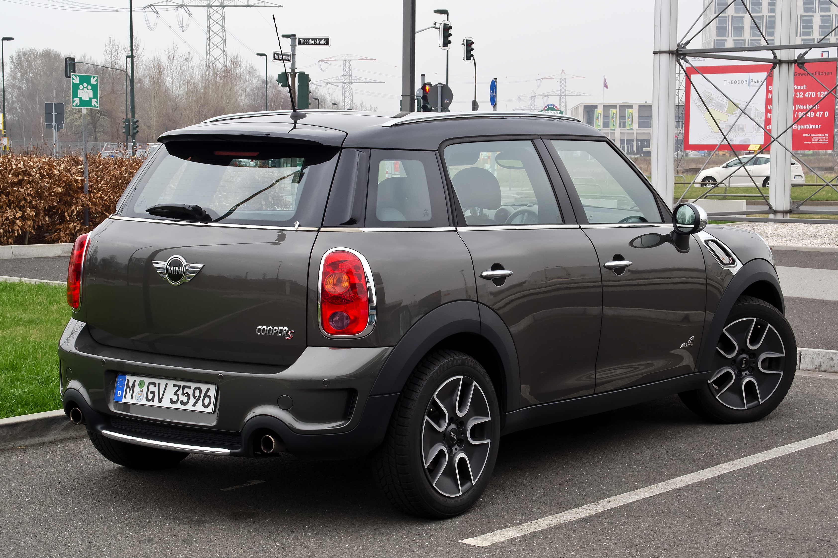 Mini Cooper S ALL4 Countryman (R60)